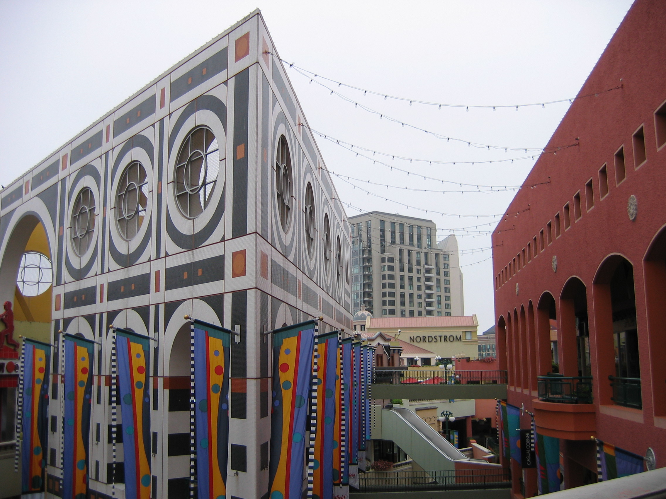 Horton Plaza shopping mall, located in downtown San Diego.